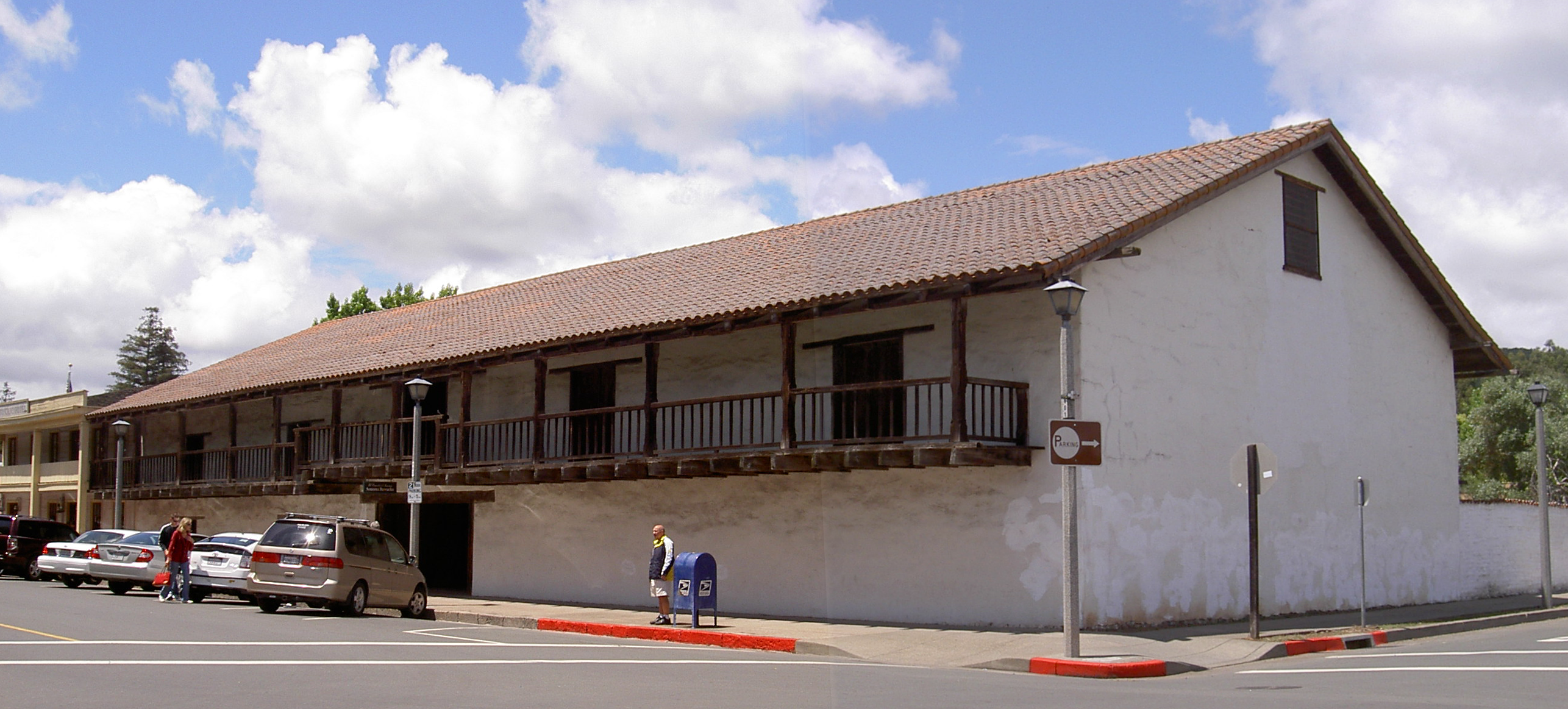 The historic barracks building of the Presidio of Sonoma, in the city of Sonoma, California USA, viewed from across the intersection of First and Spain, looking northwest. This is a mosaic created from two photos (4152 and 4153) taken at about 2 p.m. PDT on 29 June 2011.